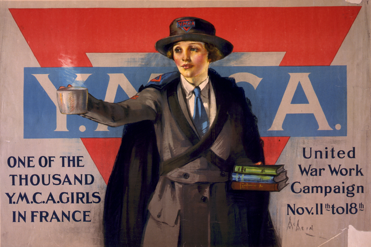 Summary: Poster showing a woman in a Y.M.C.A. uniform offering a steaming cup of coffee and books; large red triangle is behind her.